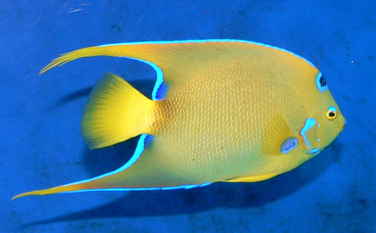 Photo of Holacanthus ciliaris (queen angelfish) at the Steinhart Aquarium in San Francisco